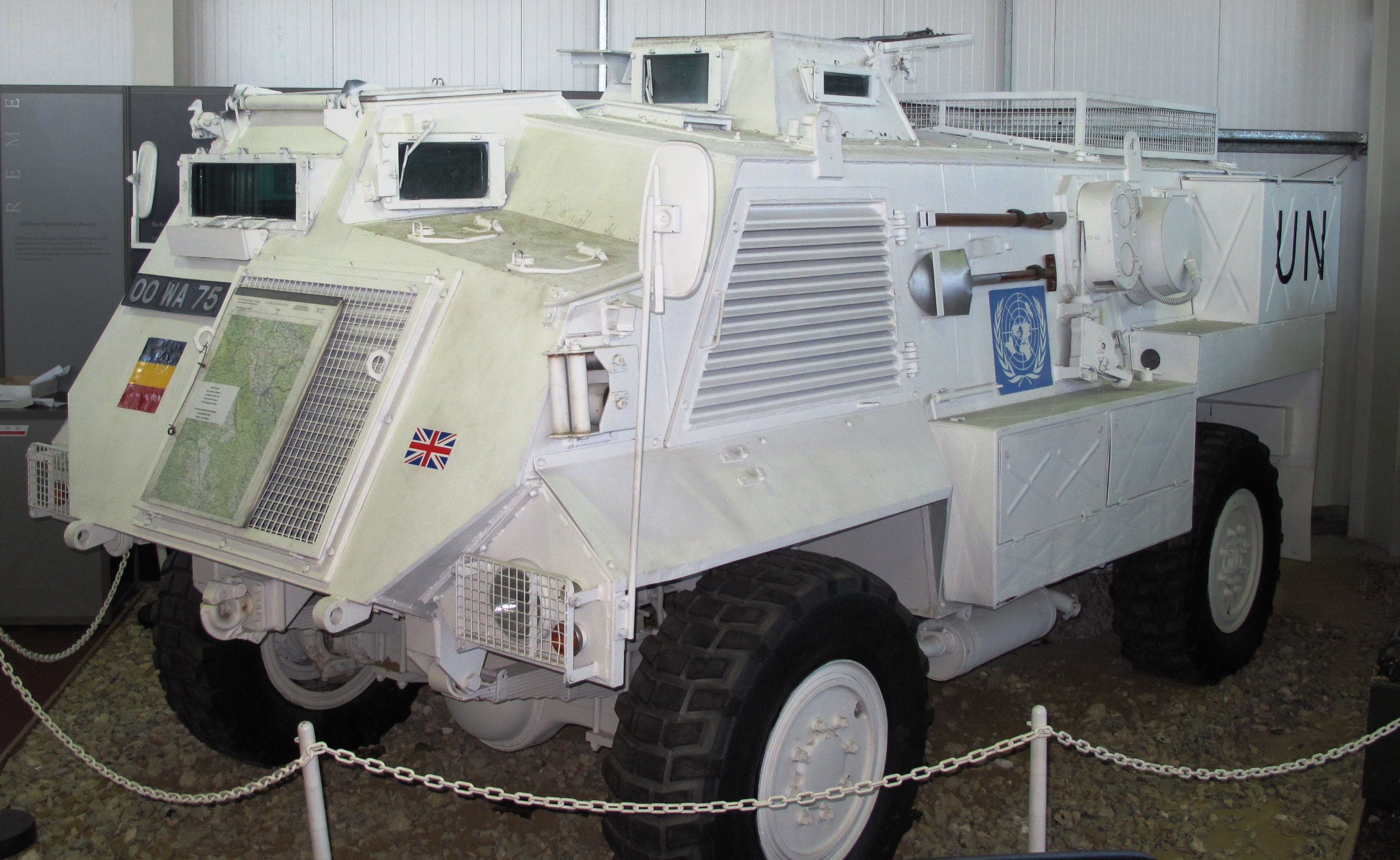 Saxon Recorver version at the REME Museum